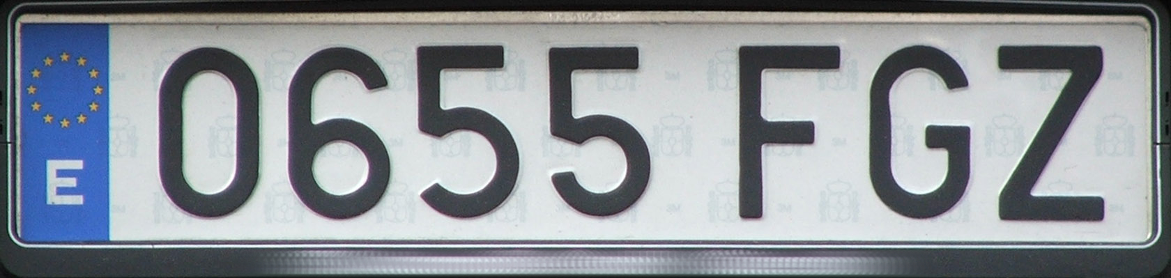 New vehicle licence plate from Spain- after year 2000.